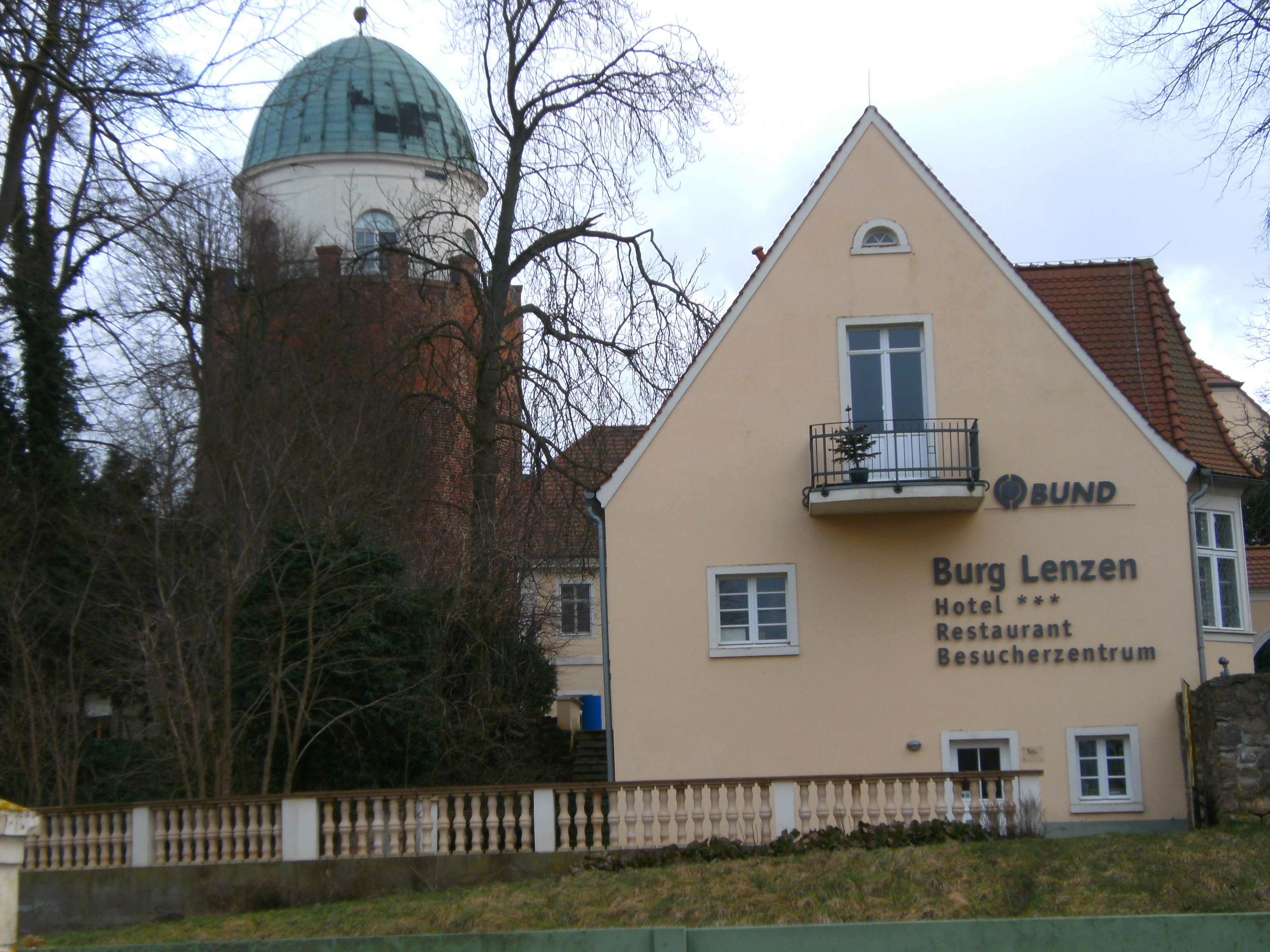 Lenzen (Elbe), Germany: Burg Lenzen (castle). Museum, hotel, visitor and conference centre.